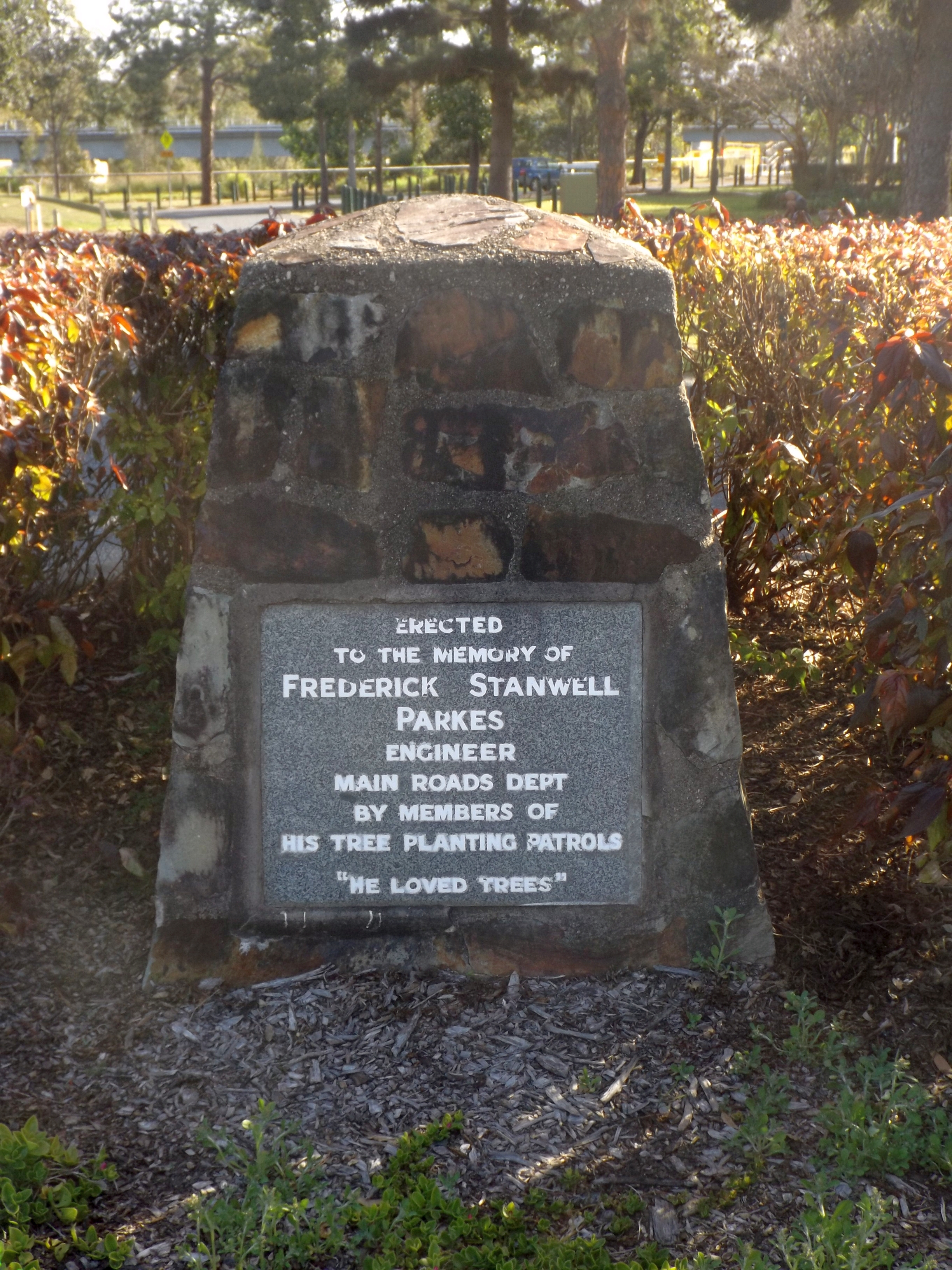 Photo of memorial to Frederick Stanwell Parkes at Petrie Road Rest Area at Petrie, Moreton Bay Region, Queensland, Australia.